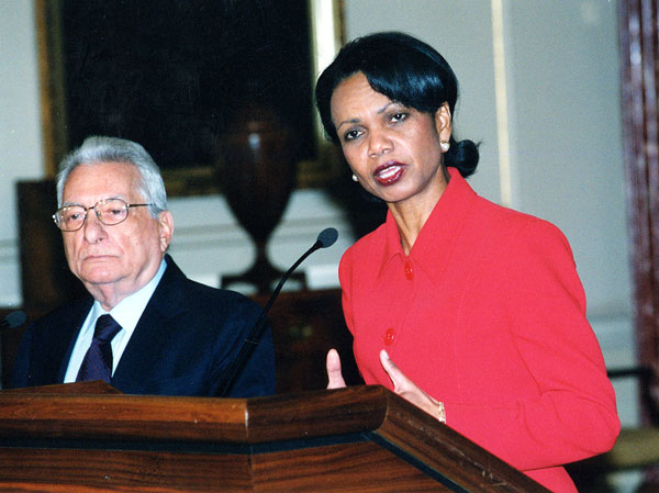 Washington, DC March 24, 2005 Secretary Rice with His Excellency Petros Molyviatis, Minister of Foreign Affairs of the Hellenic Republic (Greece) speak to the press after meeting. State Department photo